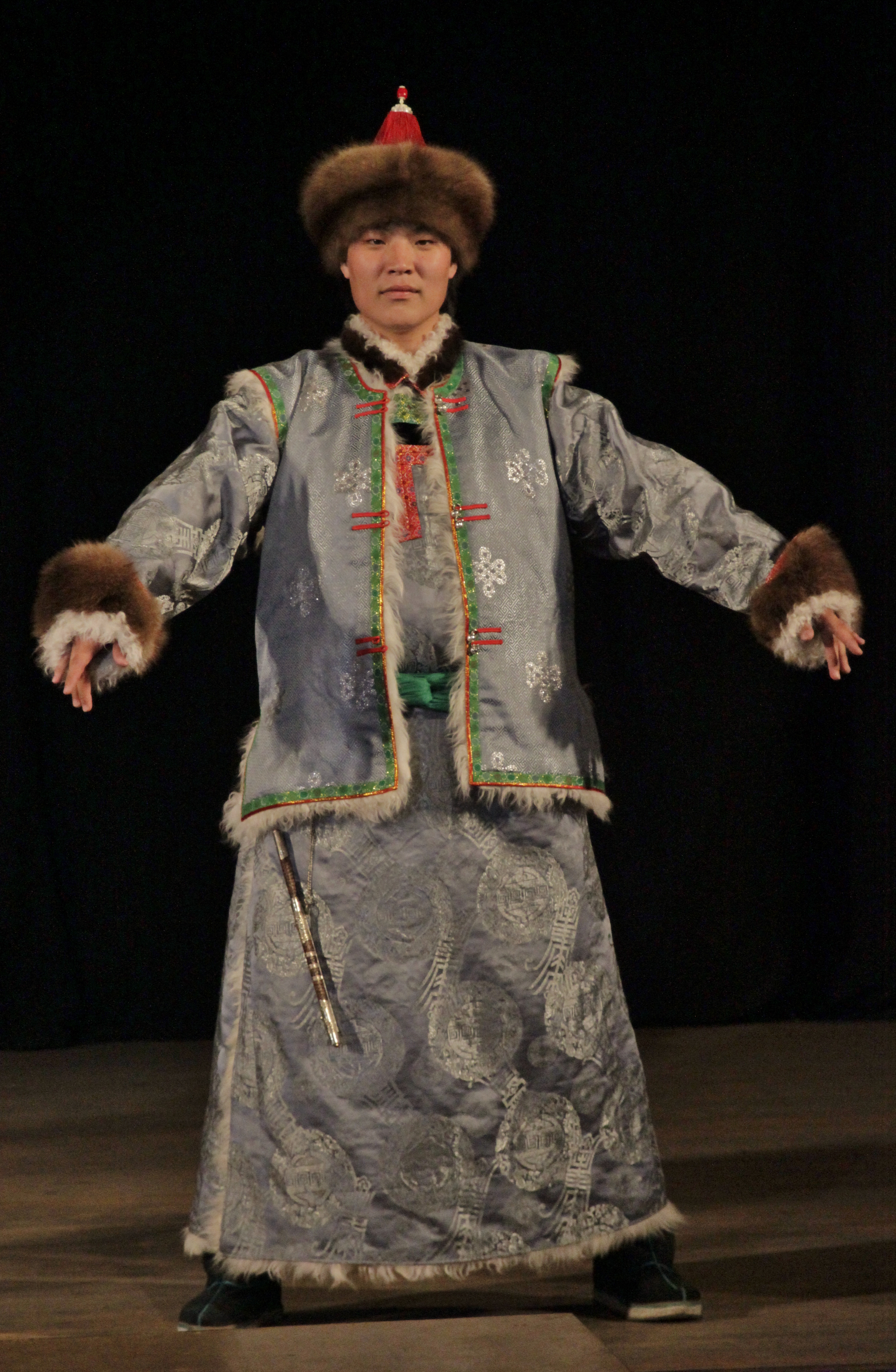 Costume contest at the Festival of Buryat culture "Altargana-2012." Aginsk Buryat district, Transbaikalia territory